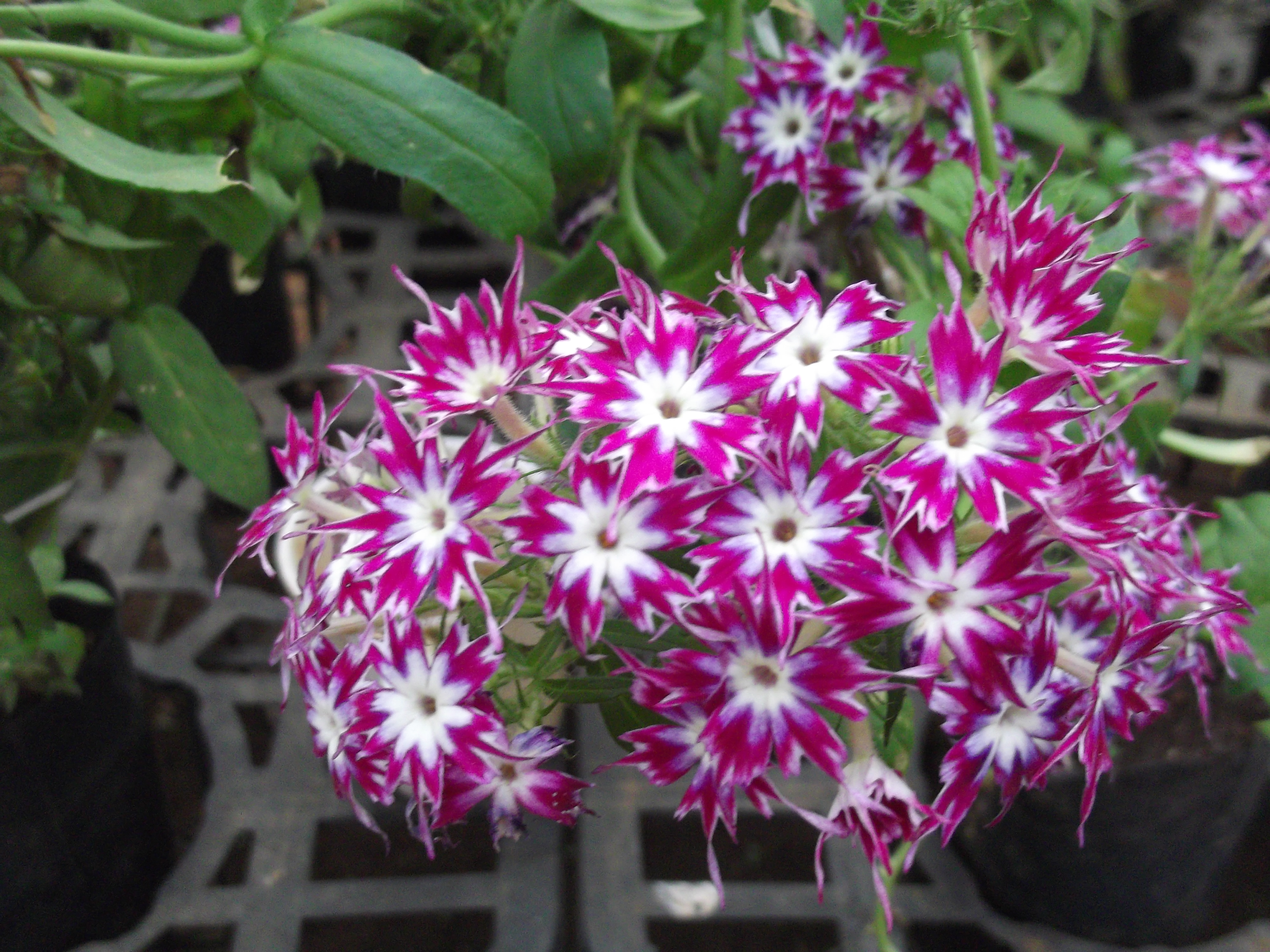 Ornemental plants,flowers pink,lilacs,roses,red to almost wide range colors.